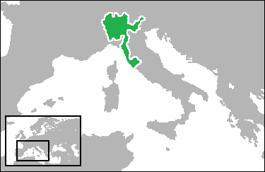 Locator map showing the Duchy of Milan in the year 1400. (Around its largest extent)(Partially based on Euratlas map of Europe - 1400.)